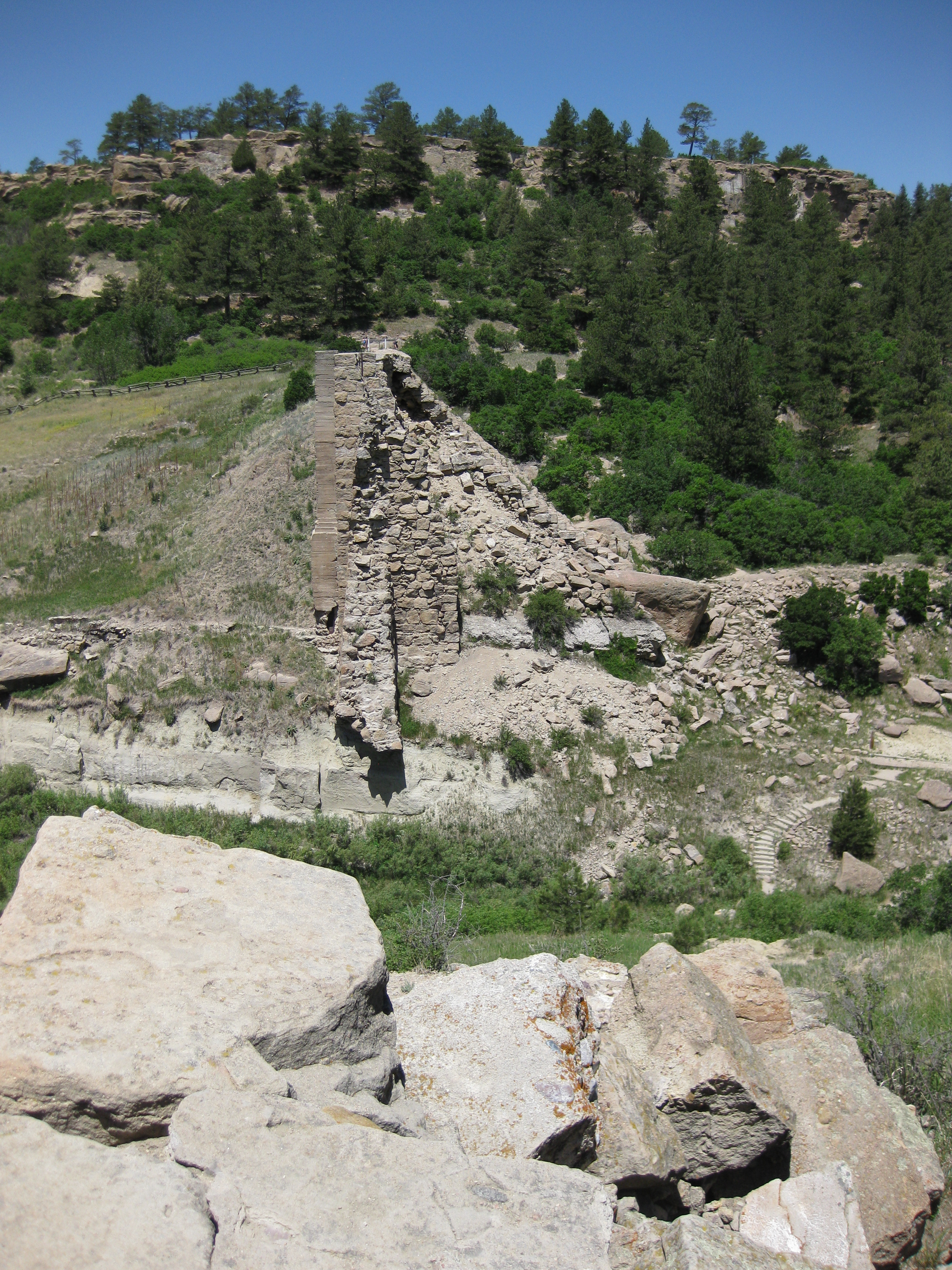 Looking west to the remains of Castlewood Dam from the remains of eastern end of the dam that burst in 1933 in Castlewood Canyon State Park, Colorado, U.S.A.